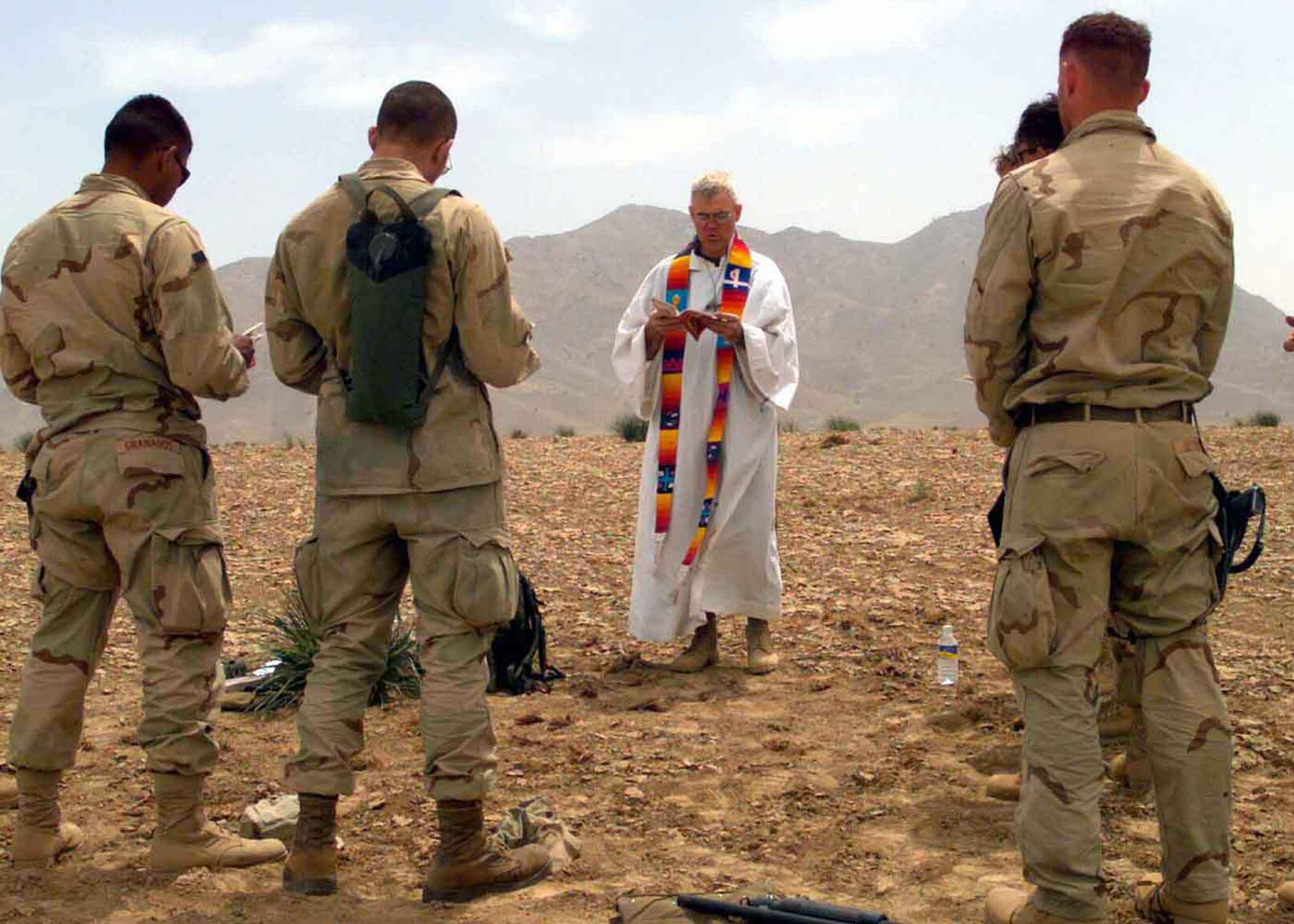 Afghanistan (April 18, 2004) - Battalion Landing Team Chaplain, Navy Lt. John Hoke, holds mass for several members attached to the 1st Battalion, 6th Marine Regiment, the ground combat element of the 22nd Marine Expeditionary Unit (special operations capable) in south-central Afghanistan. U.S. Marine Corps photo by Cpl. Robert A. Sturkie (RELEASED)